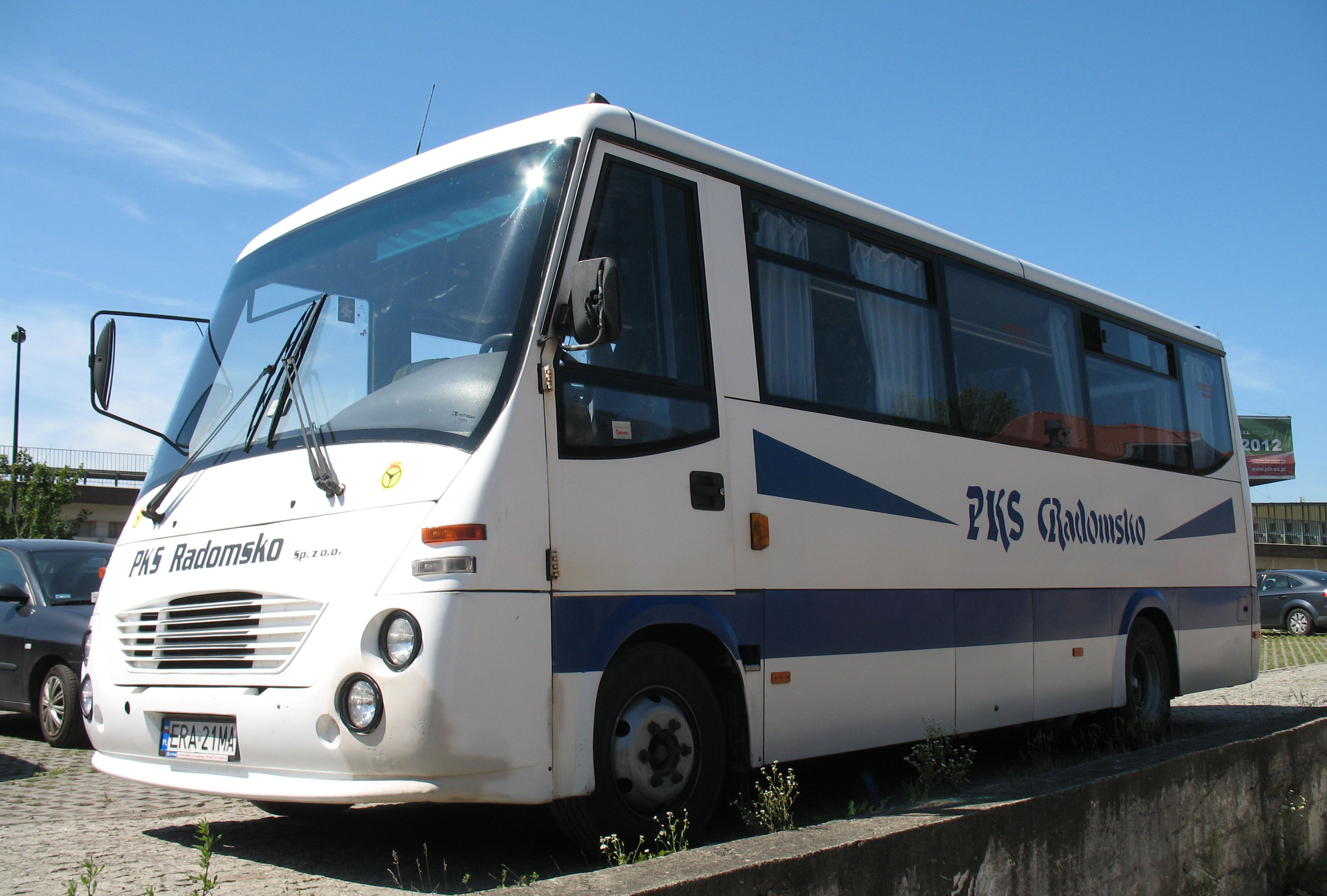 Autosan H7-10.05 Traper bus (#F110401) in Kraków, Poland. Built 2004, PKS Radomsko operator.